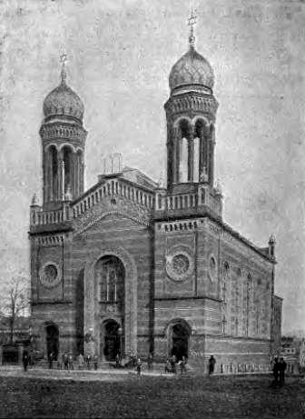 Synagogue in Beuthen O.S.